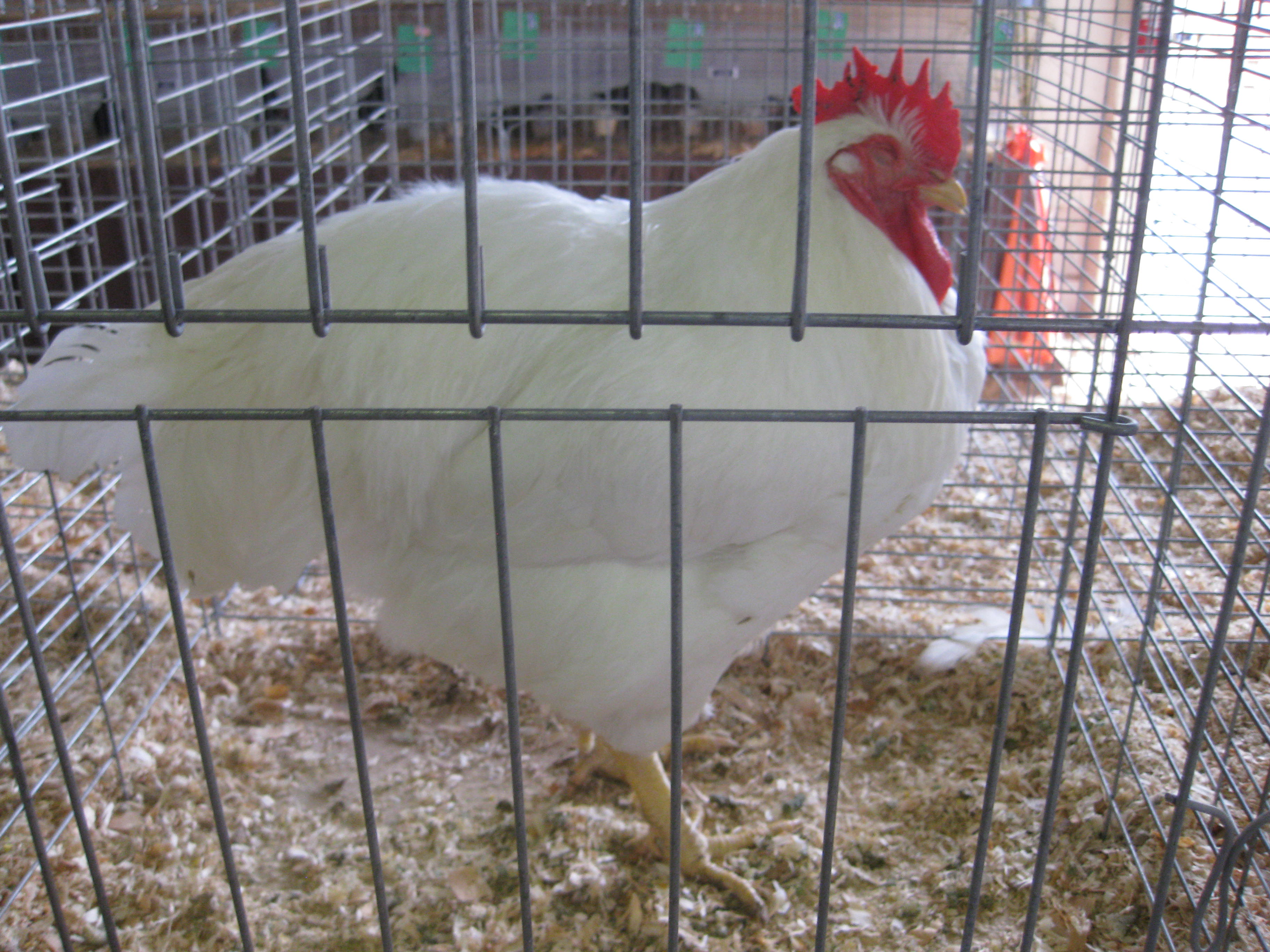 A White Plymouth Rock rooster, sleeping.